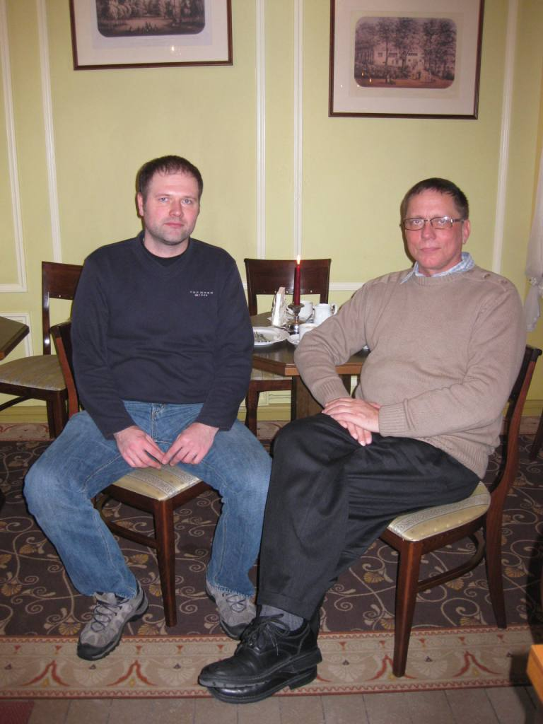 Co-Directors of Geikristlaste Kogu: Meelis Süld (left) and Heino Nurk (right). Taken at Park Café, Kadriorg, Tallinn, Estonia.